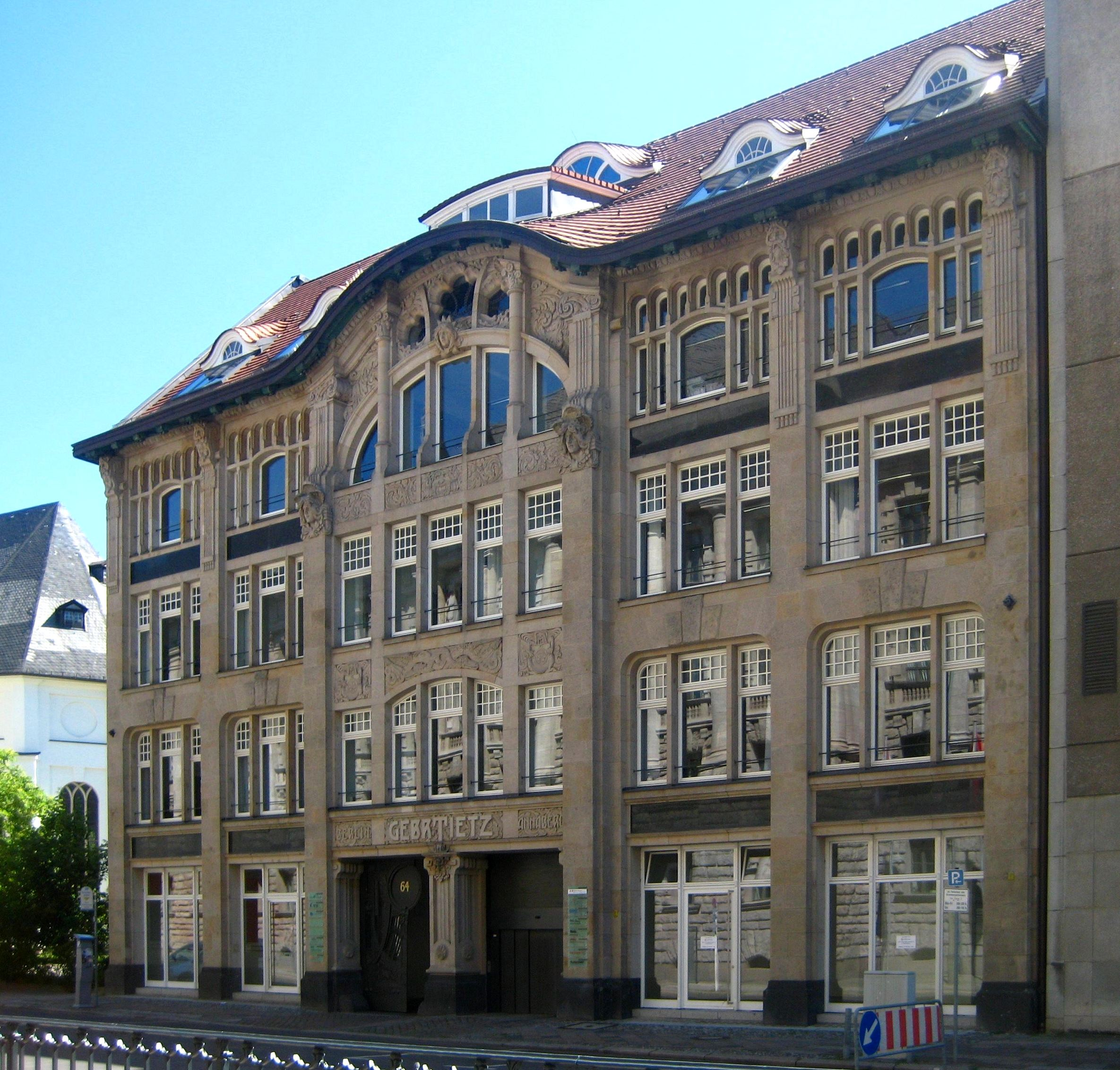 Commercial building at Klosterstraße 64 in Berlin-Mitte, built 1904-1906 for the brothers Georg and Heinrich Tietz by architect Georg Lewy. The four-story building with two inner yards is much larger than the front suggests and almost spans the whole block up to Waisenstraße. It was originally occupied by several textile firms. Ornaments of the sandstone facade are in the Art Nouveau style. The building is landmarked.